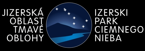 Logo of Izera Dark Sky Park.